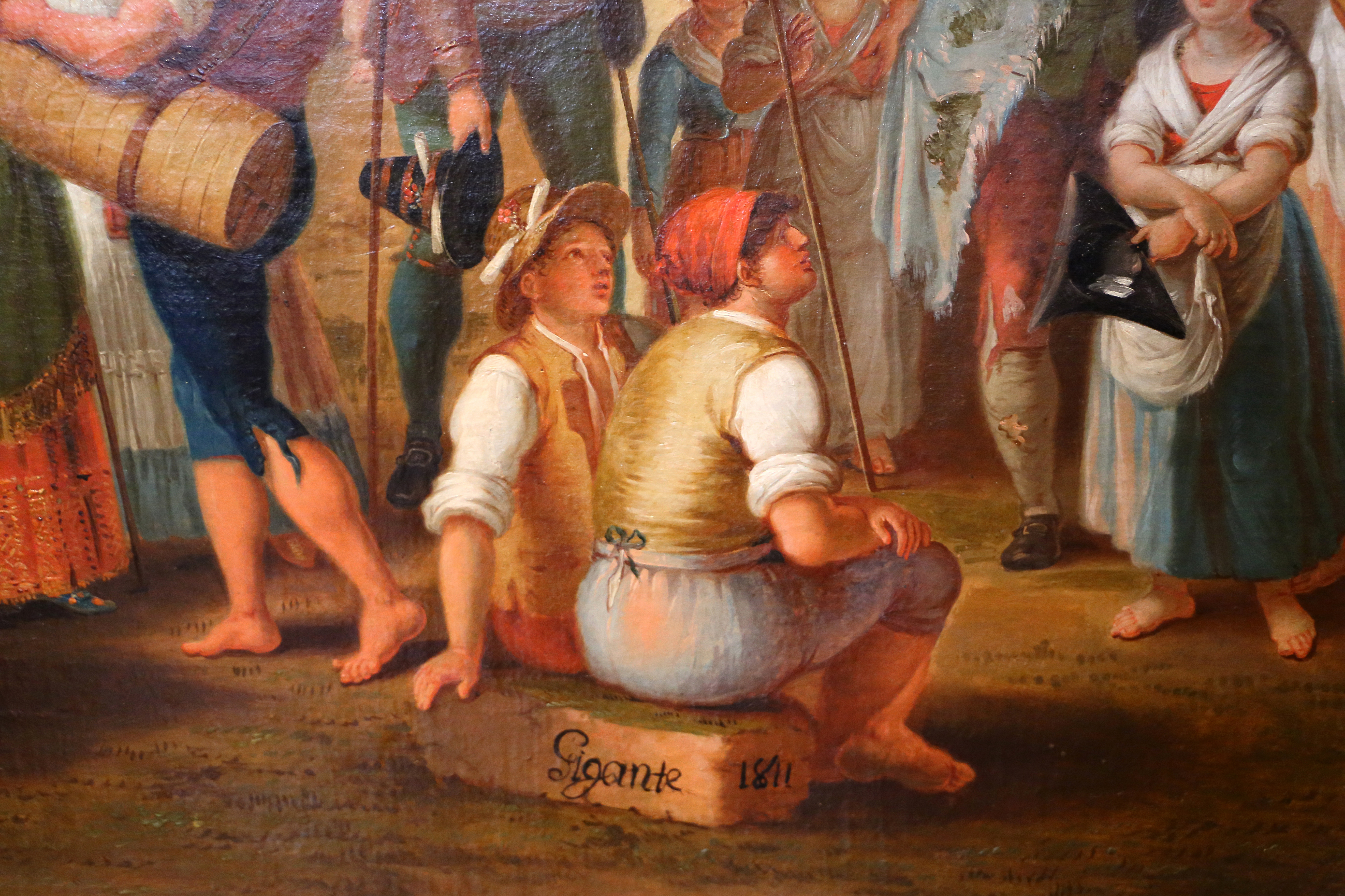 Paintings in the Musée Fesch